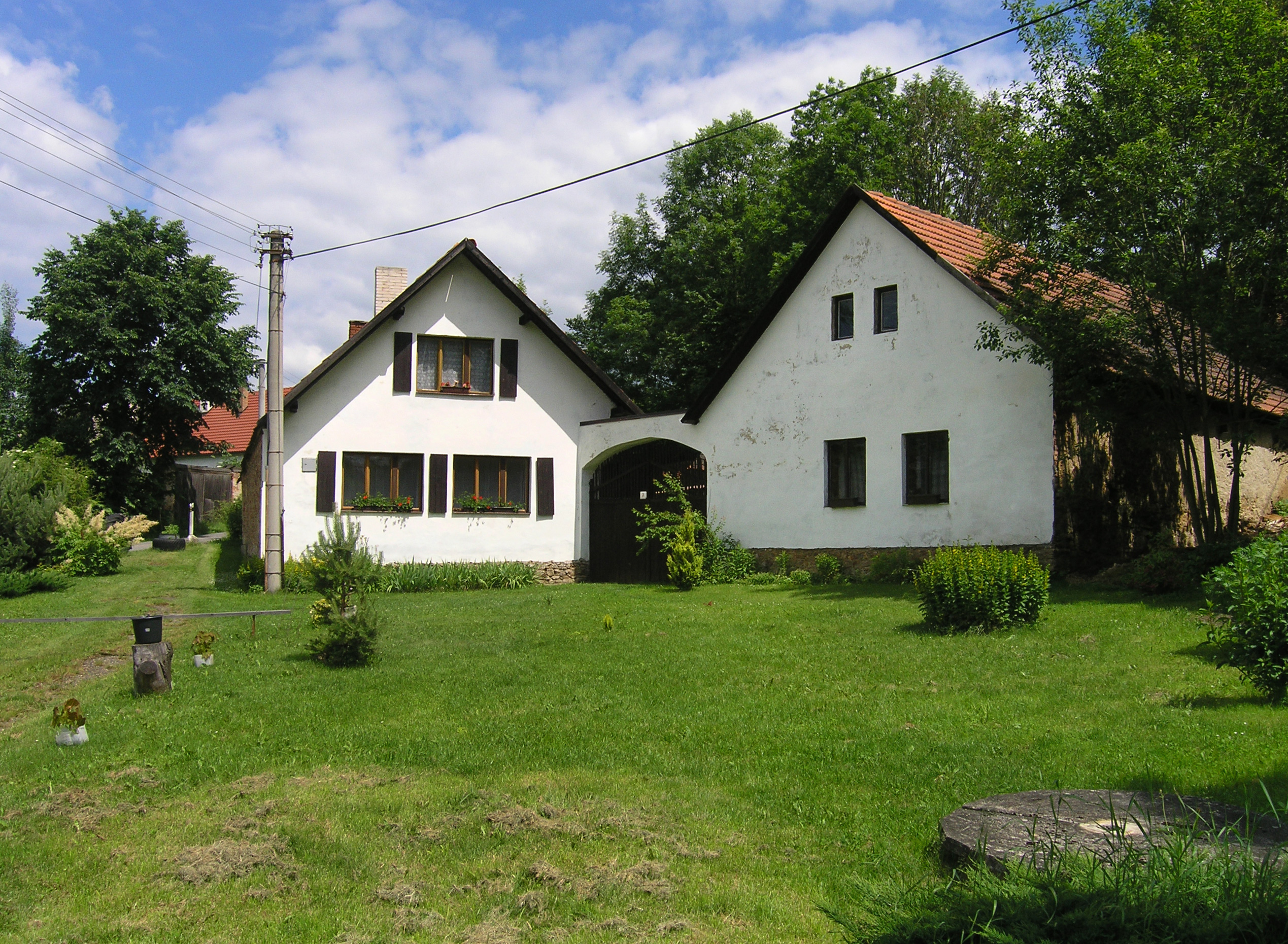 Old farm in Růžkovy Lhotice, part of Čechcice, Czech Republic